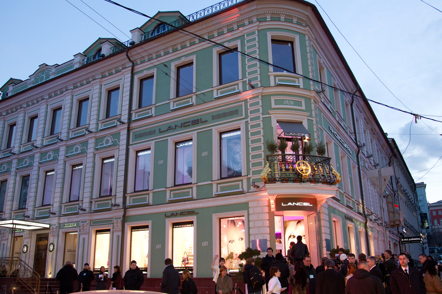 Lancel boutique Stoleshnikov